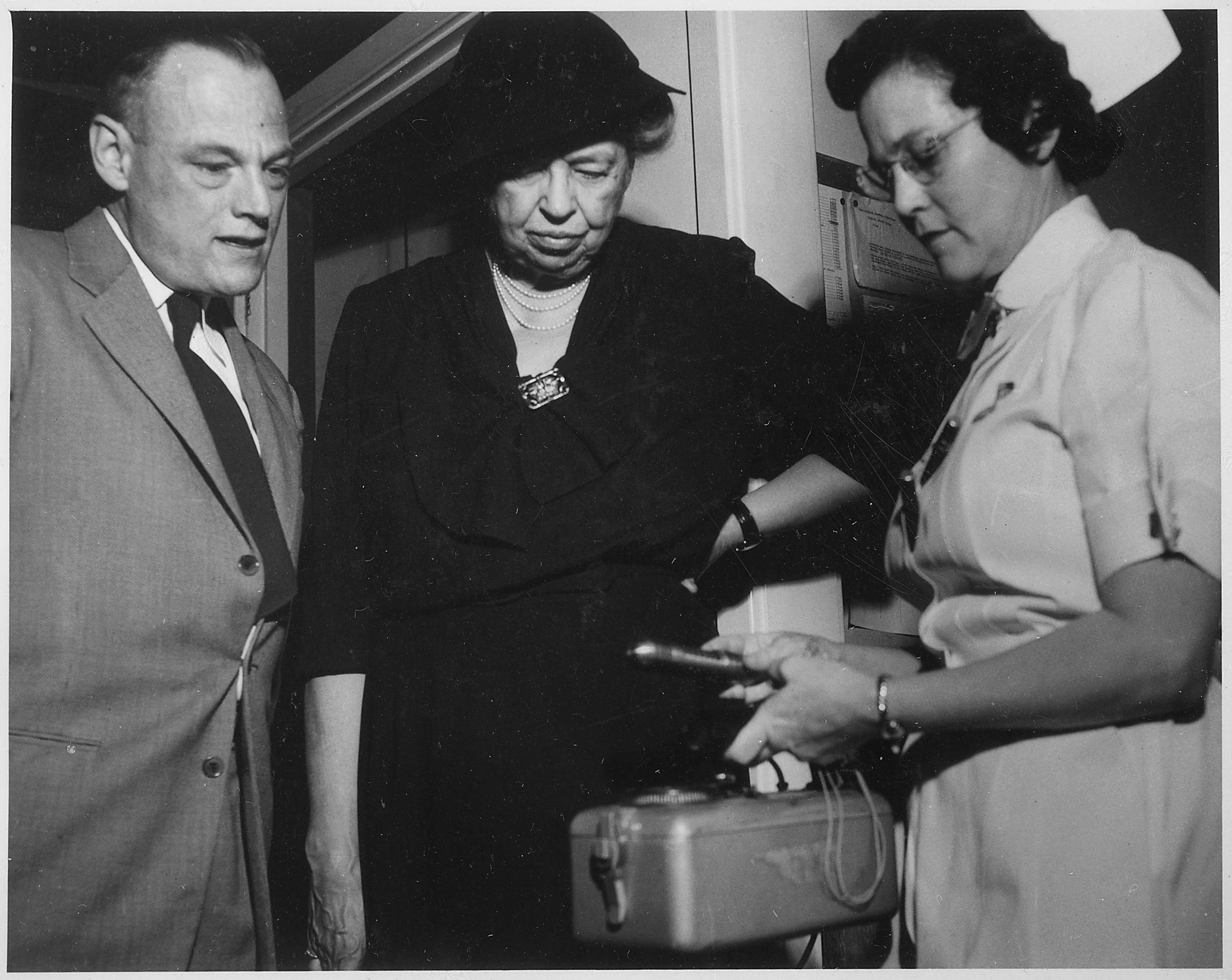 General notes: Dr. William G. Pollard and Eleanor Roosevelt watch Nurse Mary Sutliff demonstrate a radiation counter, Oak Ridge Cancer Research Hospital, 1955.